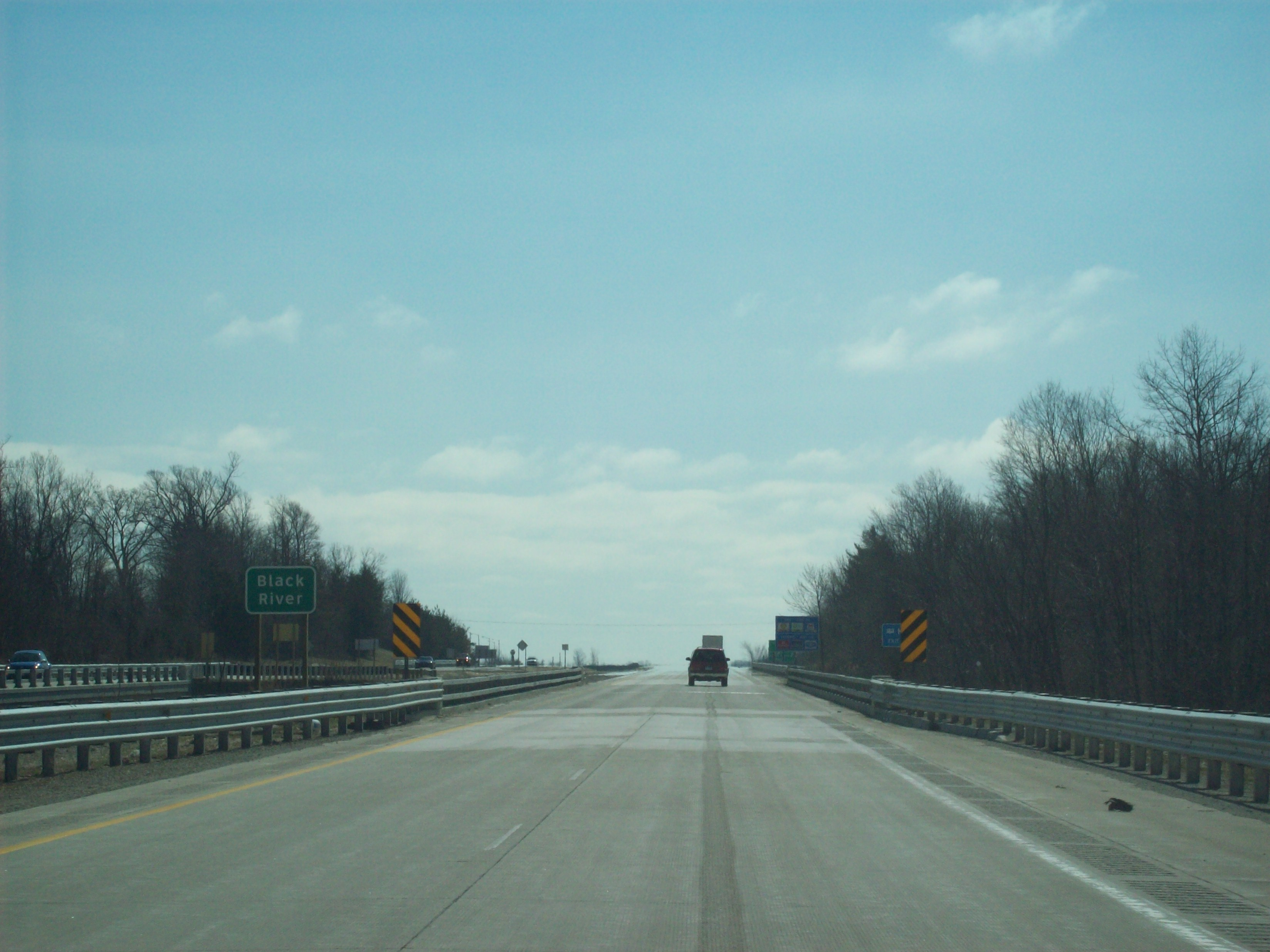 I-196 photo